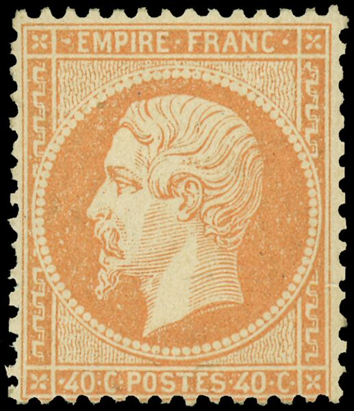 France, stamps, Napoleon III, 1862, 40 centimes orange. original stamps : 1853, modifie in 1862 : dentelure